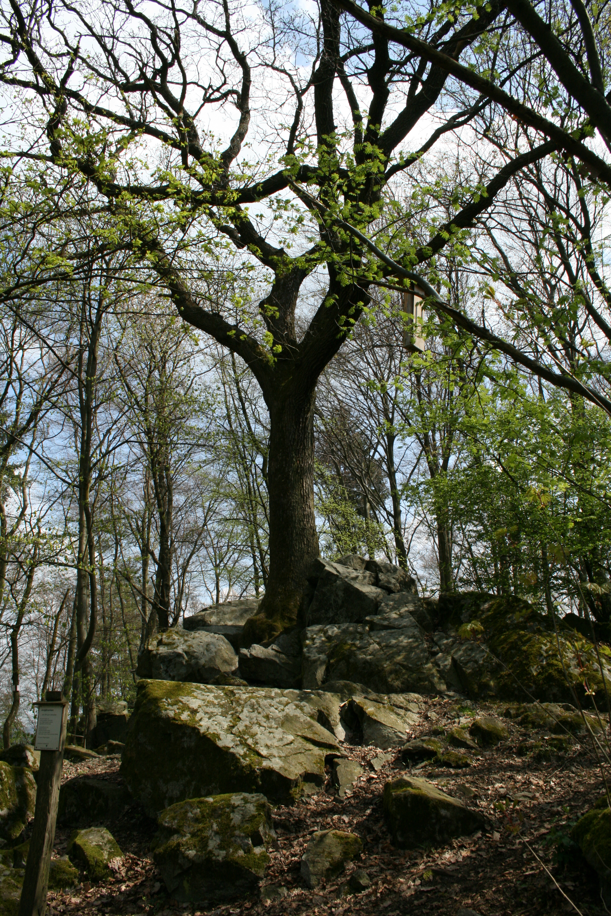 Fountain of youth near castle Frankenstein